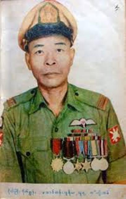 Aung San Thuriya Medalist who get in alive.